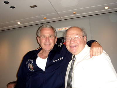 Congressman Gary Ackerman with President George W. Bush aboard Air Force One after the two attended the U.S. Merchant Marine Academy’s 2006 commencement ceremony in Kings Point, Long Island.